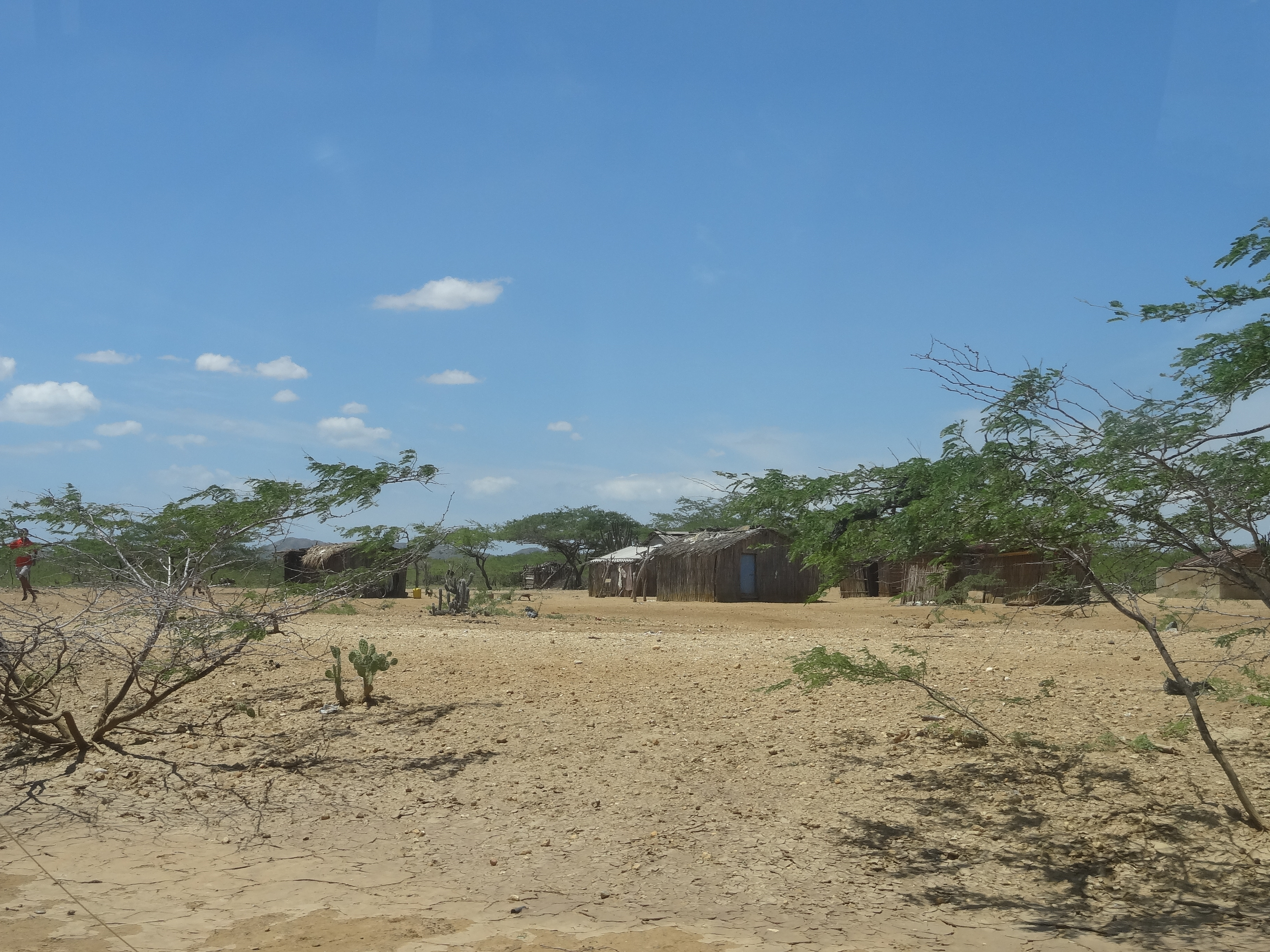 camino al cabo de la vela